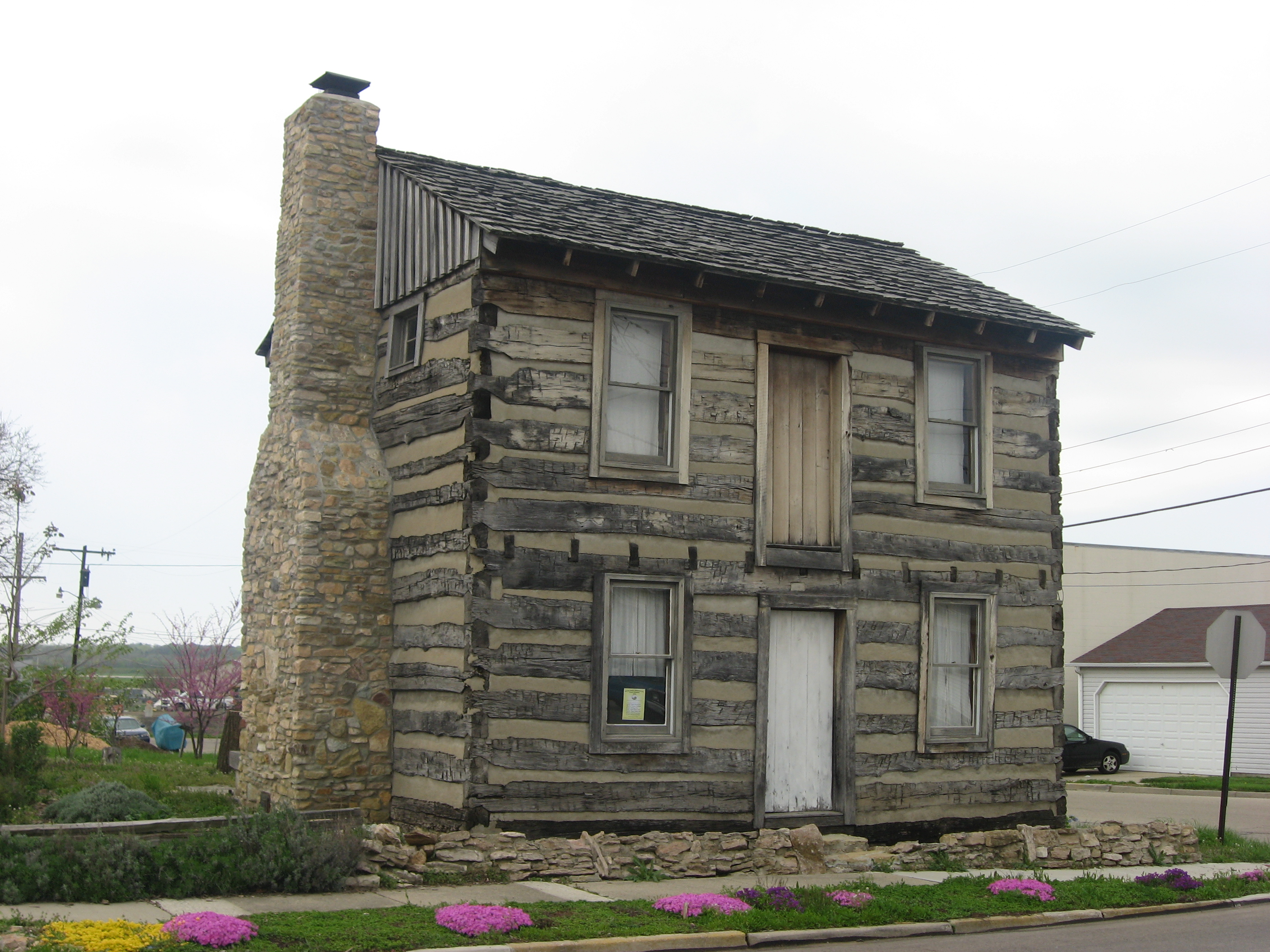 Front and southern side of the Mercer Log House, located at 41 N. First Street in Fairborn, Ohio, United States. Built in 1799, it is listed on the National Register of Historic Places.